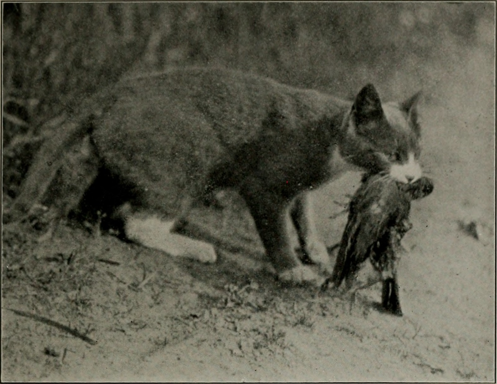 Title: ... The domestic cat; bird killer, mouser and destroyer of wild life; means of utilizing and controlling it Year: 1916 (1910s) Authors: Forbush, Edward Howe, 1858-1929 Subjects: Cats Publisher: Boston, Wright & Potter printing co. , state printers Text Appearing Before Image: PLATE I Text Appearing After Image: Fig. 1. — Vagabond House Cat with Robin. The vagabond cat or the barn cat, half-fed or forced to get its own living, becomes a scourge to bird life. Many house cats having once tasted birds or game seem to prefer such food.